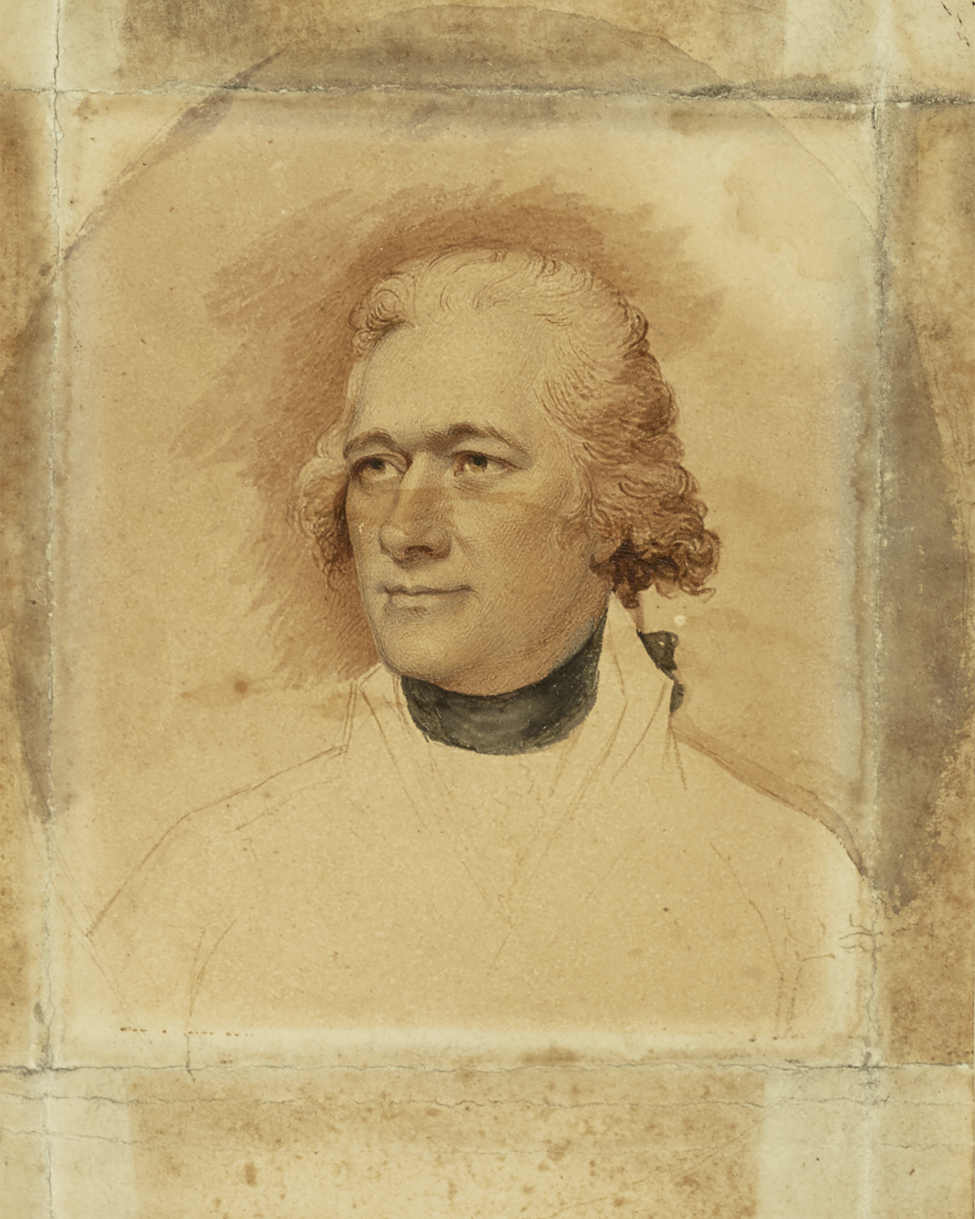 Portrait of Alexander Hamilton by Walter Robertson captured before the Whiskey Rebellion. Circa 1794